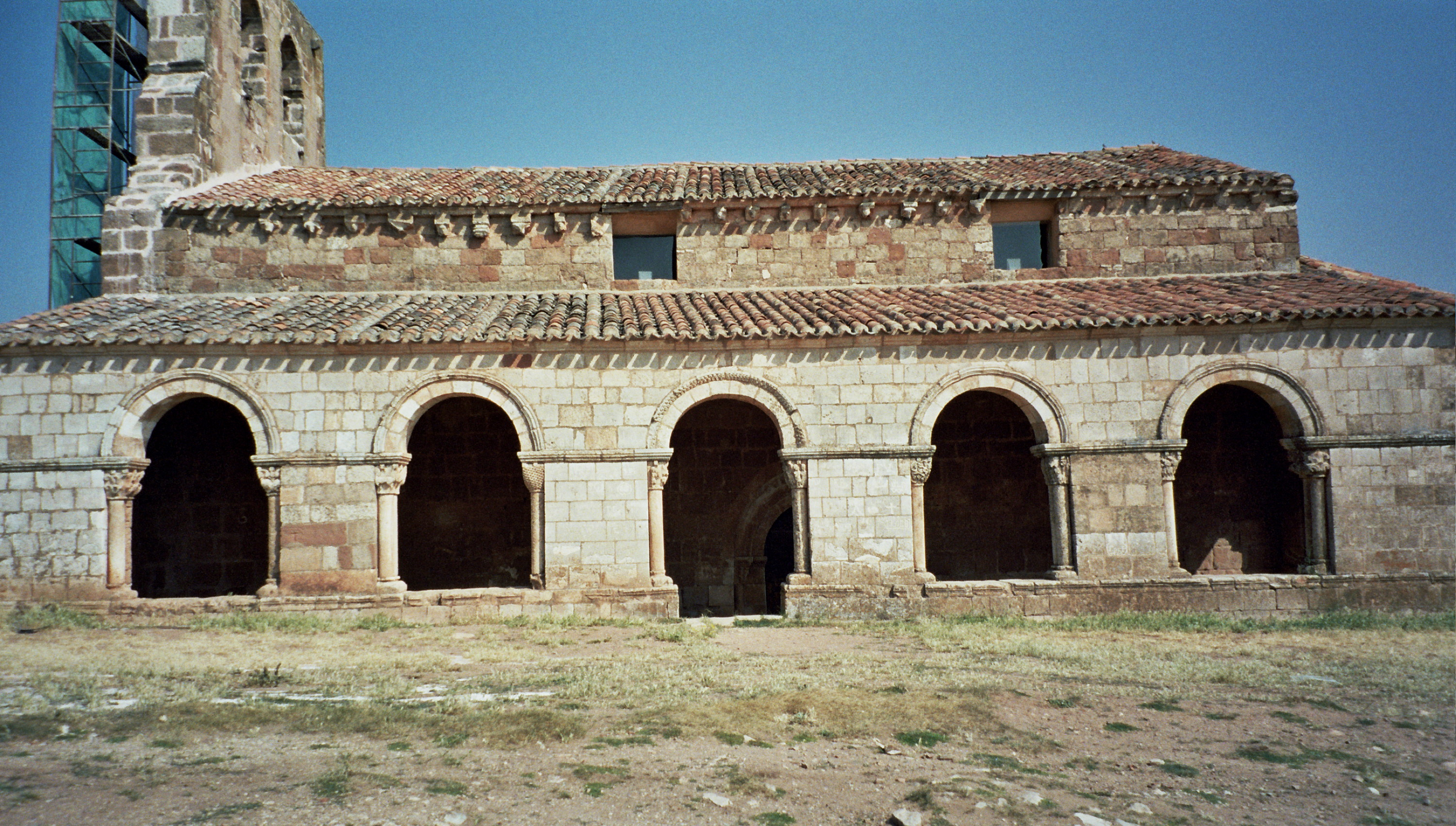 View of the entrance gallery of the church of Santa María, Tiermes, Soria (Spain).